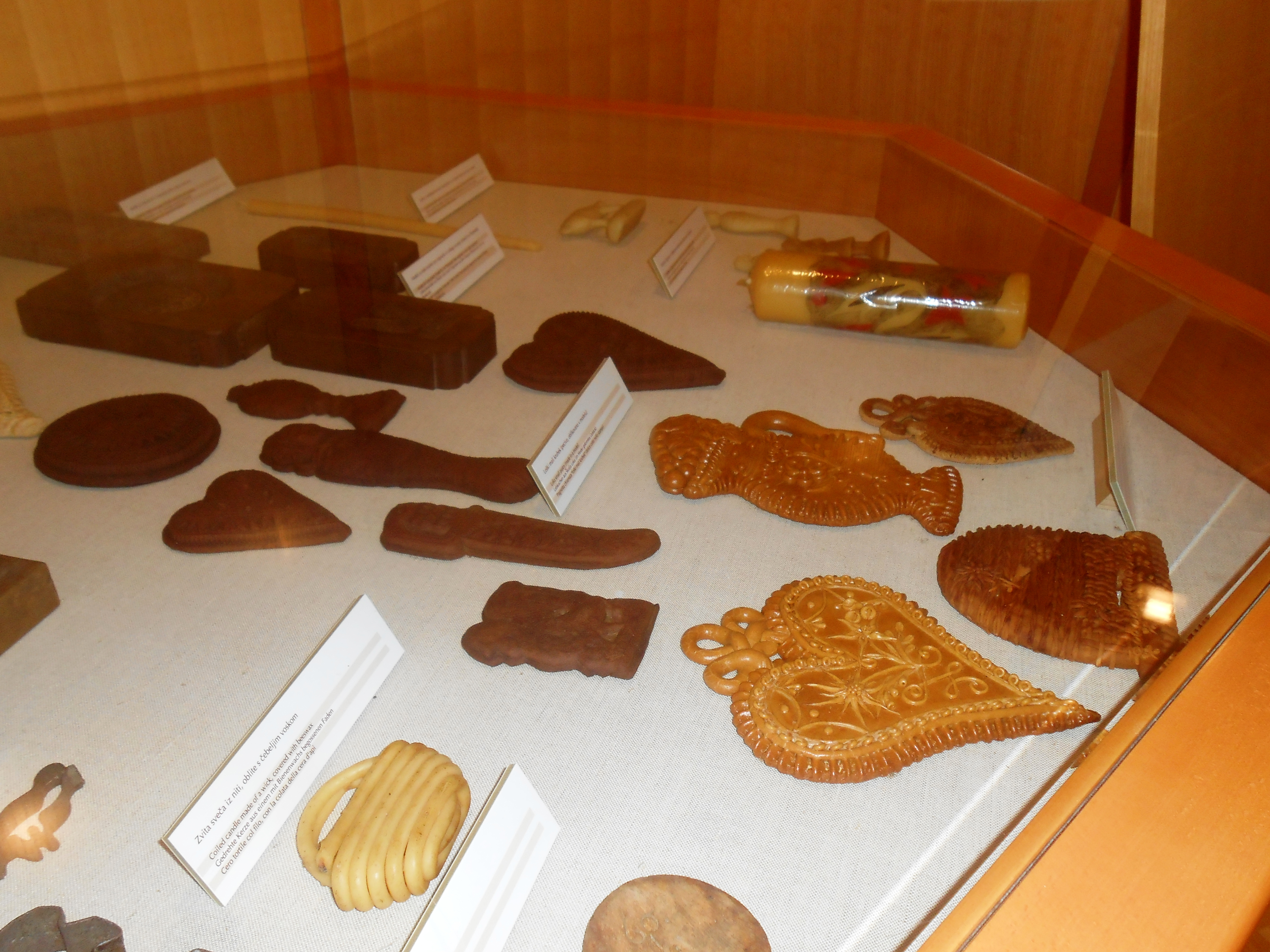 Museum of Beekeeping, Radovljica, honey cakes, Slovenia 03